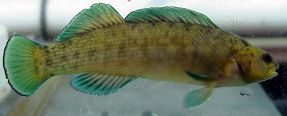 Etheostoma wapiti USFWS photo